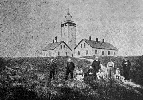 The Rubjerg Knude (Denmark) lighthouse in 1912